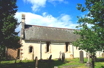 Copmanthorpe, St Giles Church.